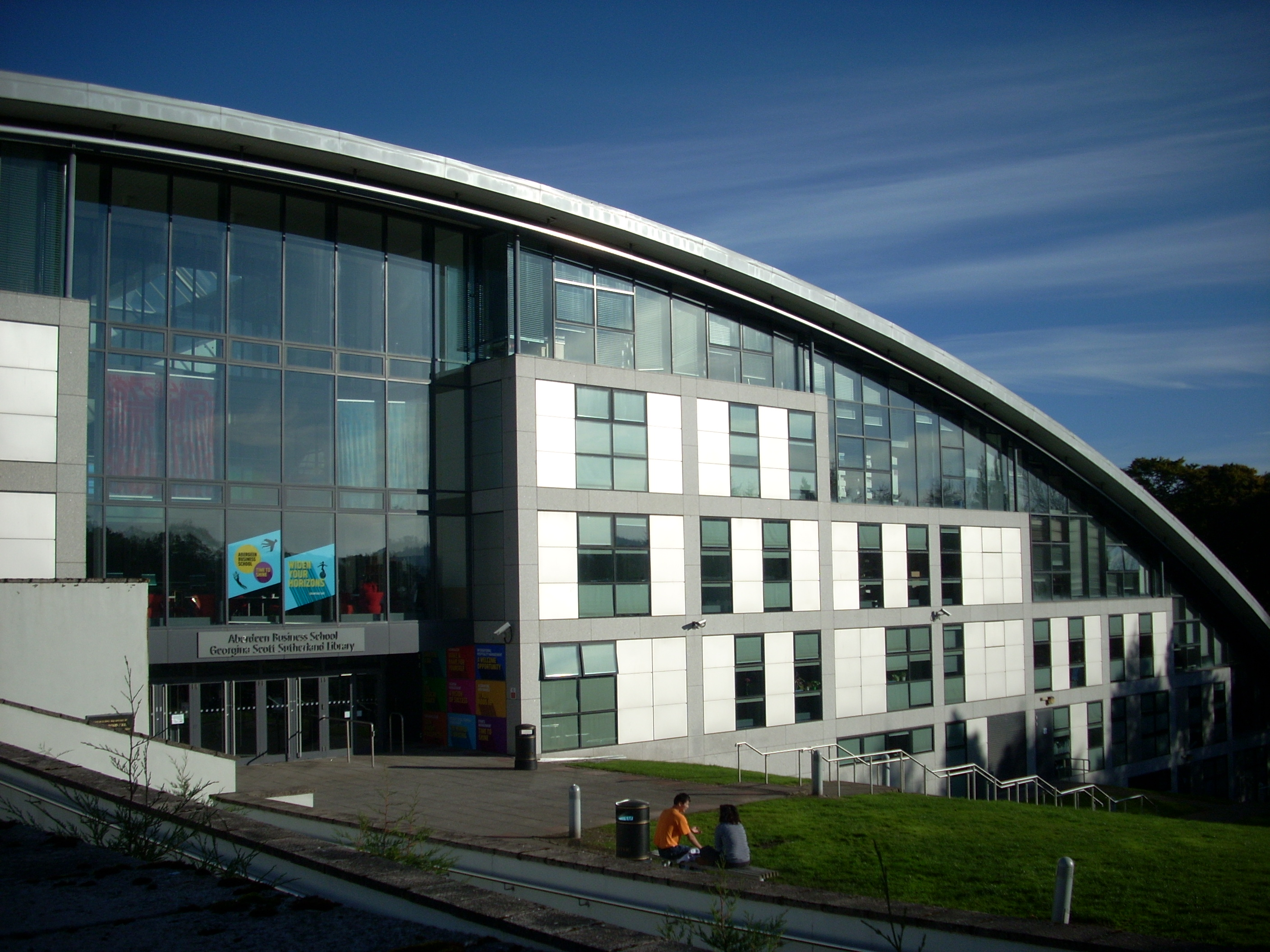 Aberdeen Business School building, The Robert Gordon University, Garthdee campus, Aberdeen, UK. Main entrance shown.